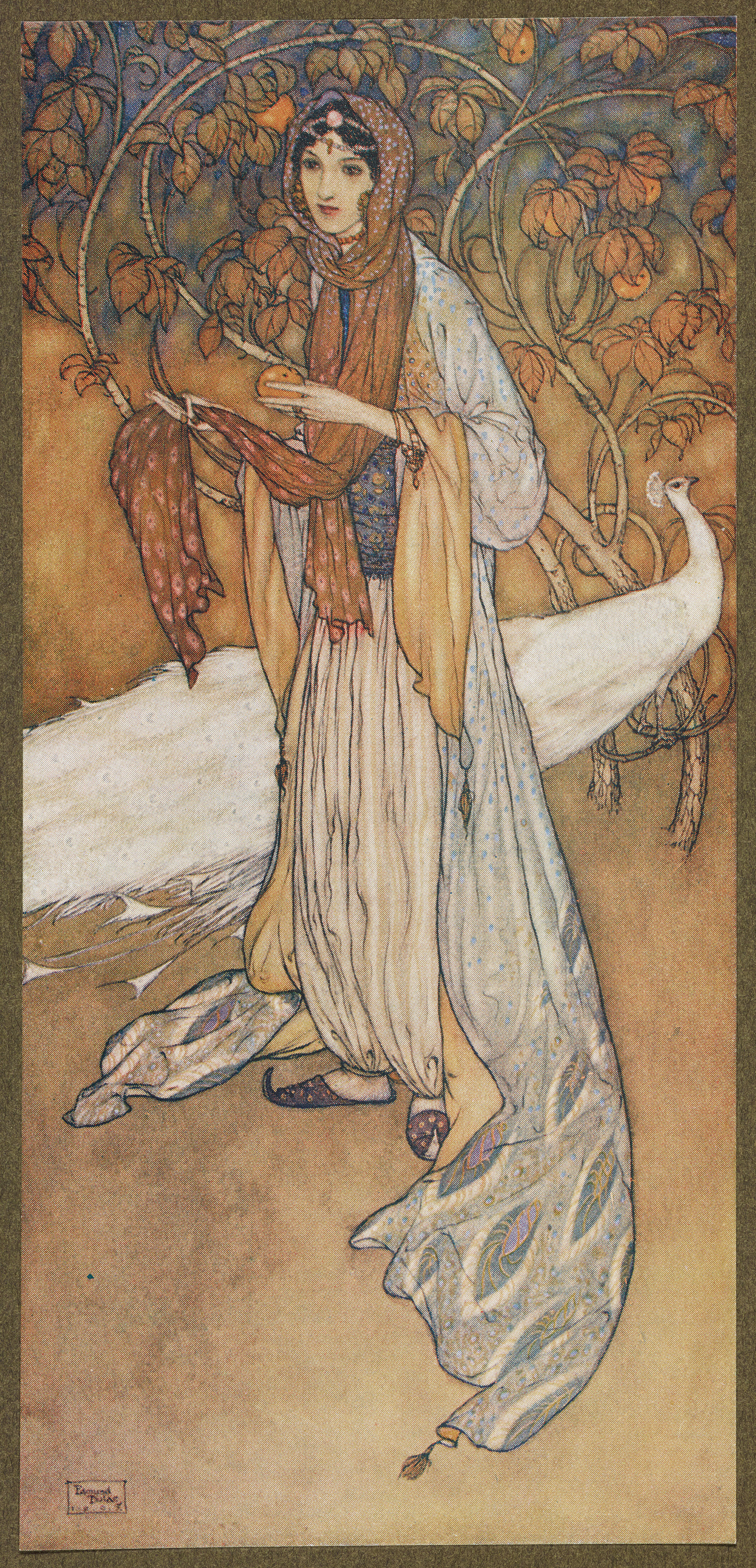 Stories from the Arabian nights retold by Laurence Housman; with drawings by Edmund Dulac (London: Hodder and Stoughton, 1907).